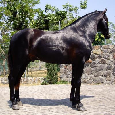 P.R.E Horse